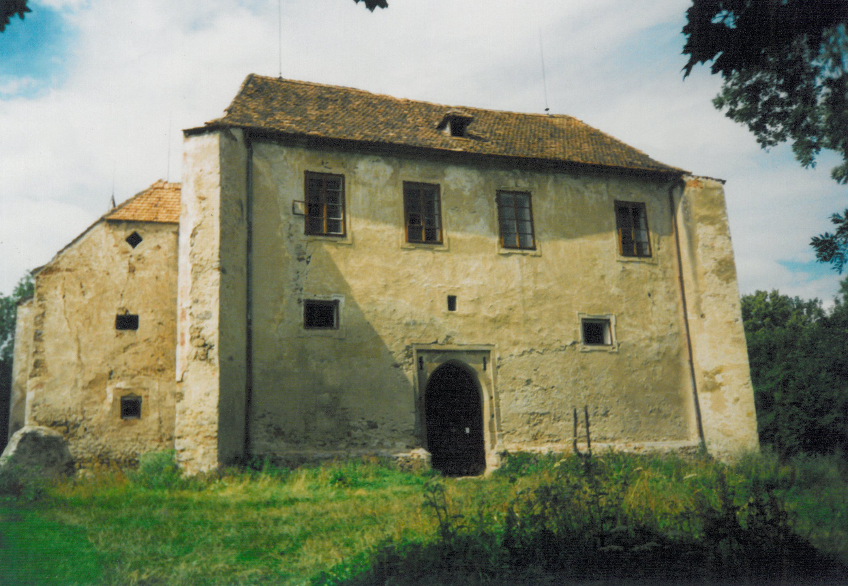 Cuknštejn fortress